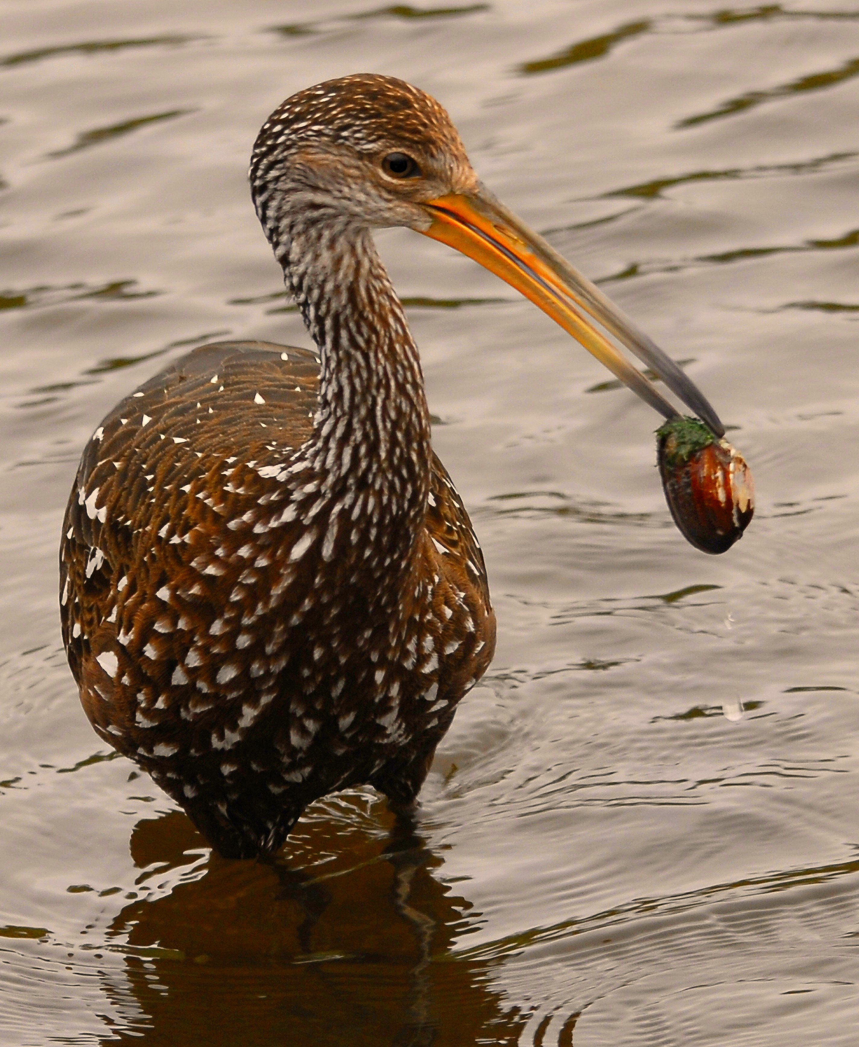 Limpkin with small bivalve